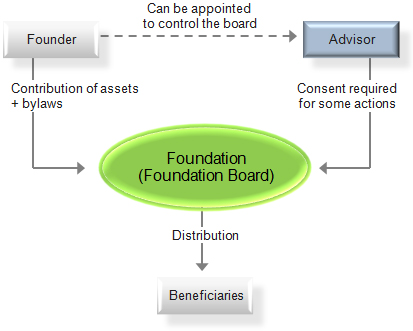 Organisational chart and structure of a foundation.